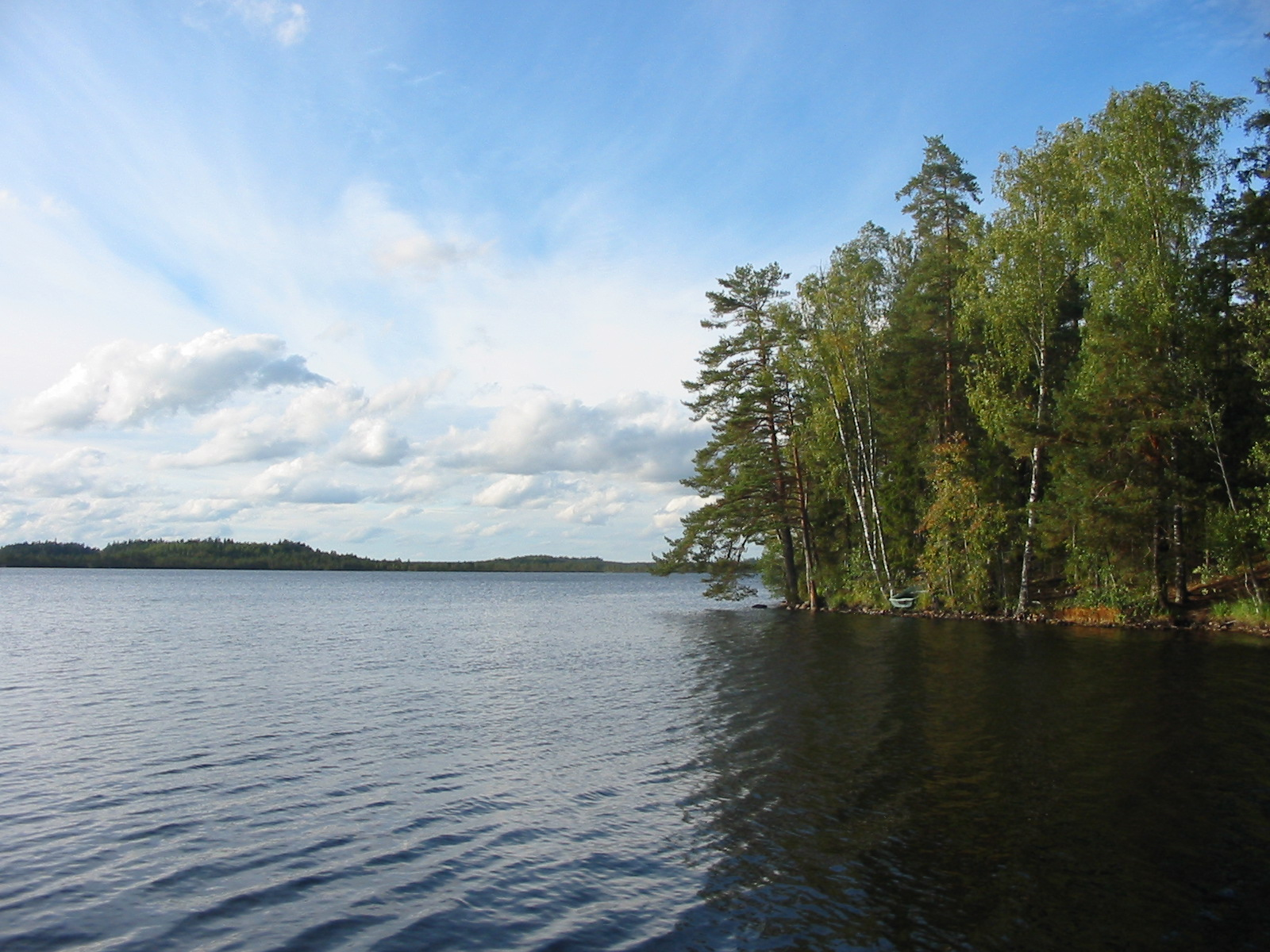 Lake savojärvi in Kurjenrahka National park near Kurjenpesä